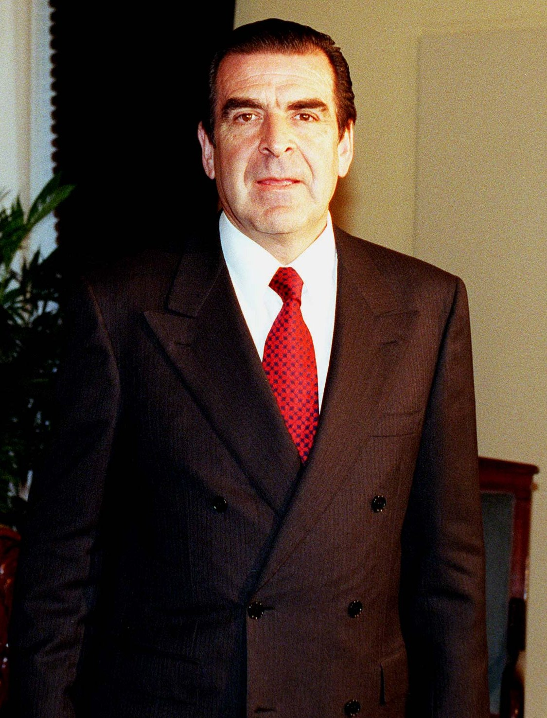 Eduardo Frei Ruiz-Tagle, President of Chile, during a visit of US secretary of defense William Cohen to Santiago on May 25, 1998.